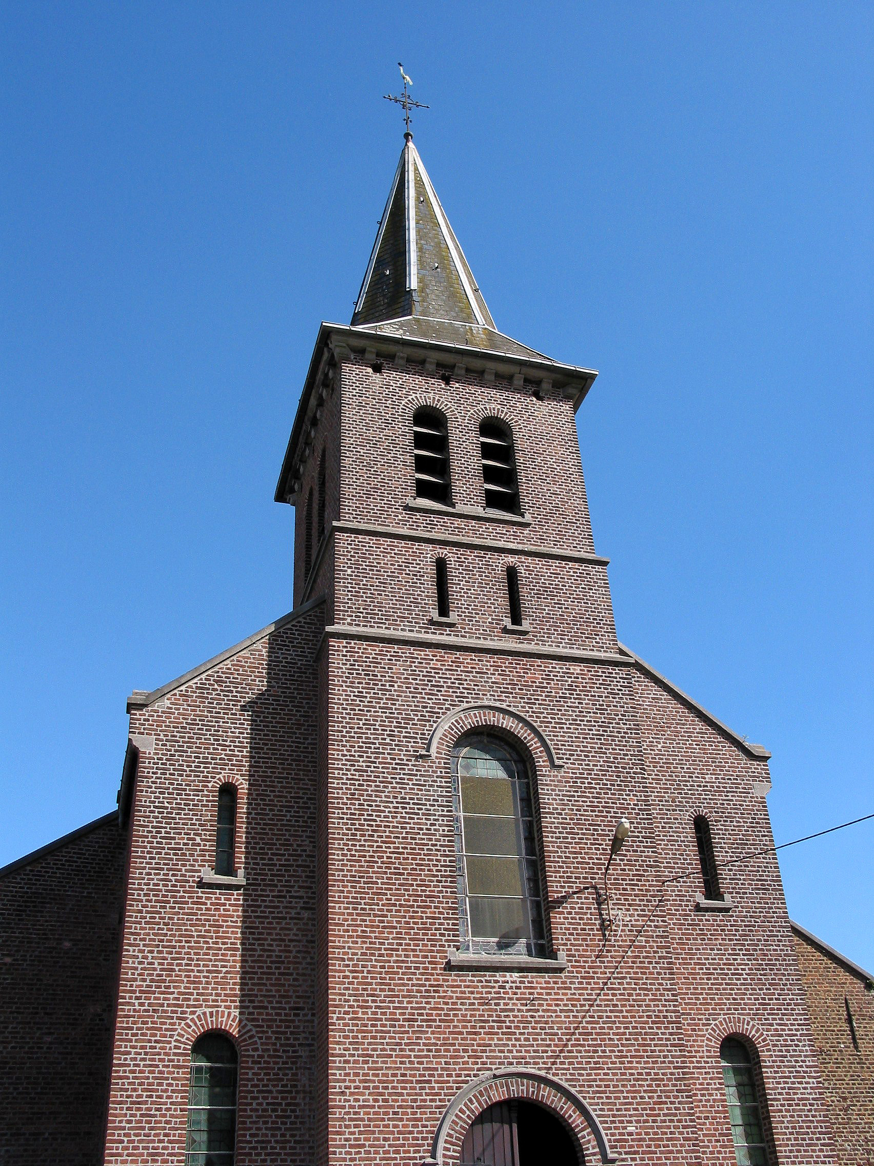 Aulnois (Belgique), l'église Saint-Brice.